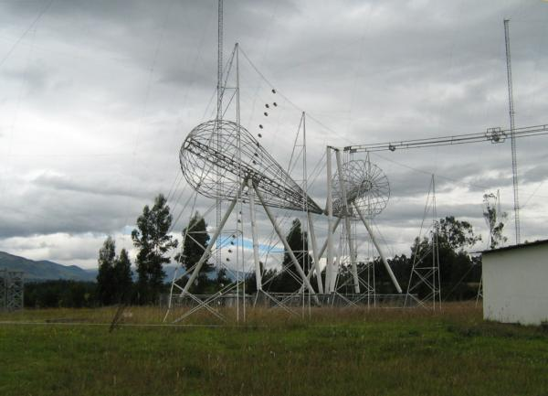 The steerable "mixer-antenna" of radio HCJB, Pifo, Ecuador